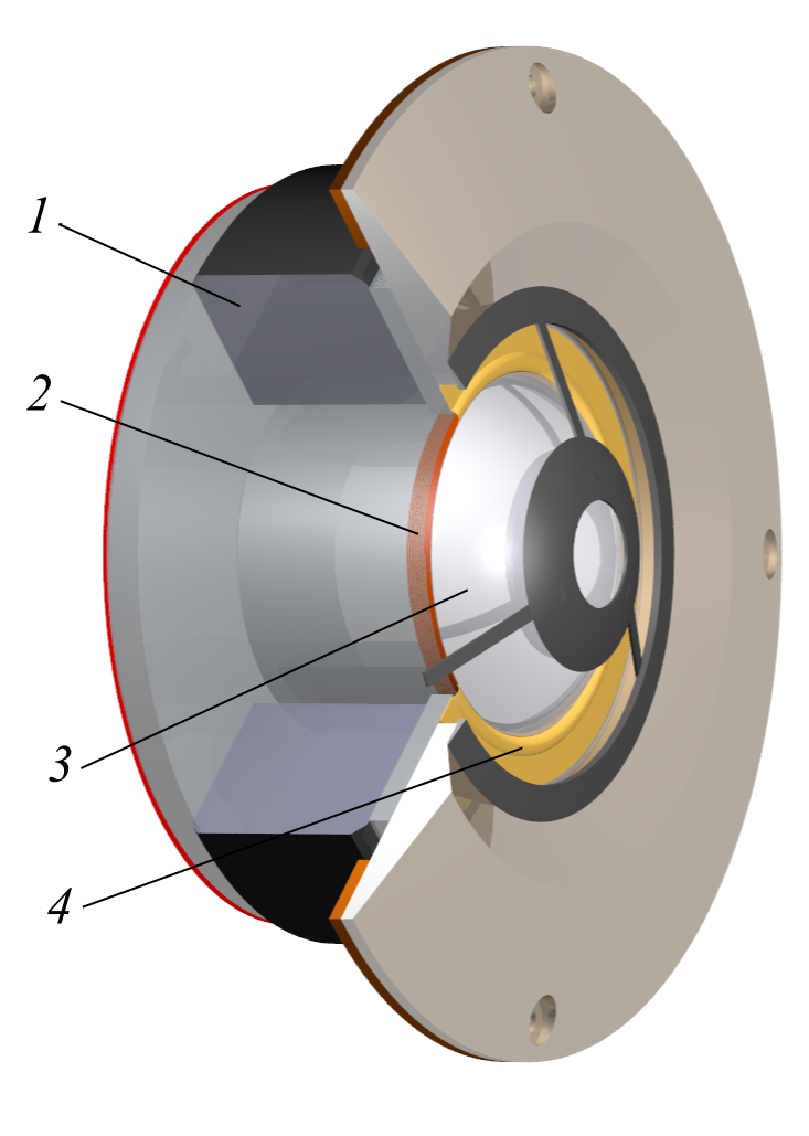 loadspeaker, tweeter